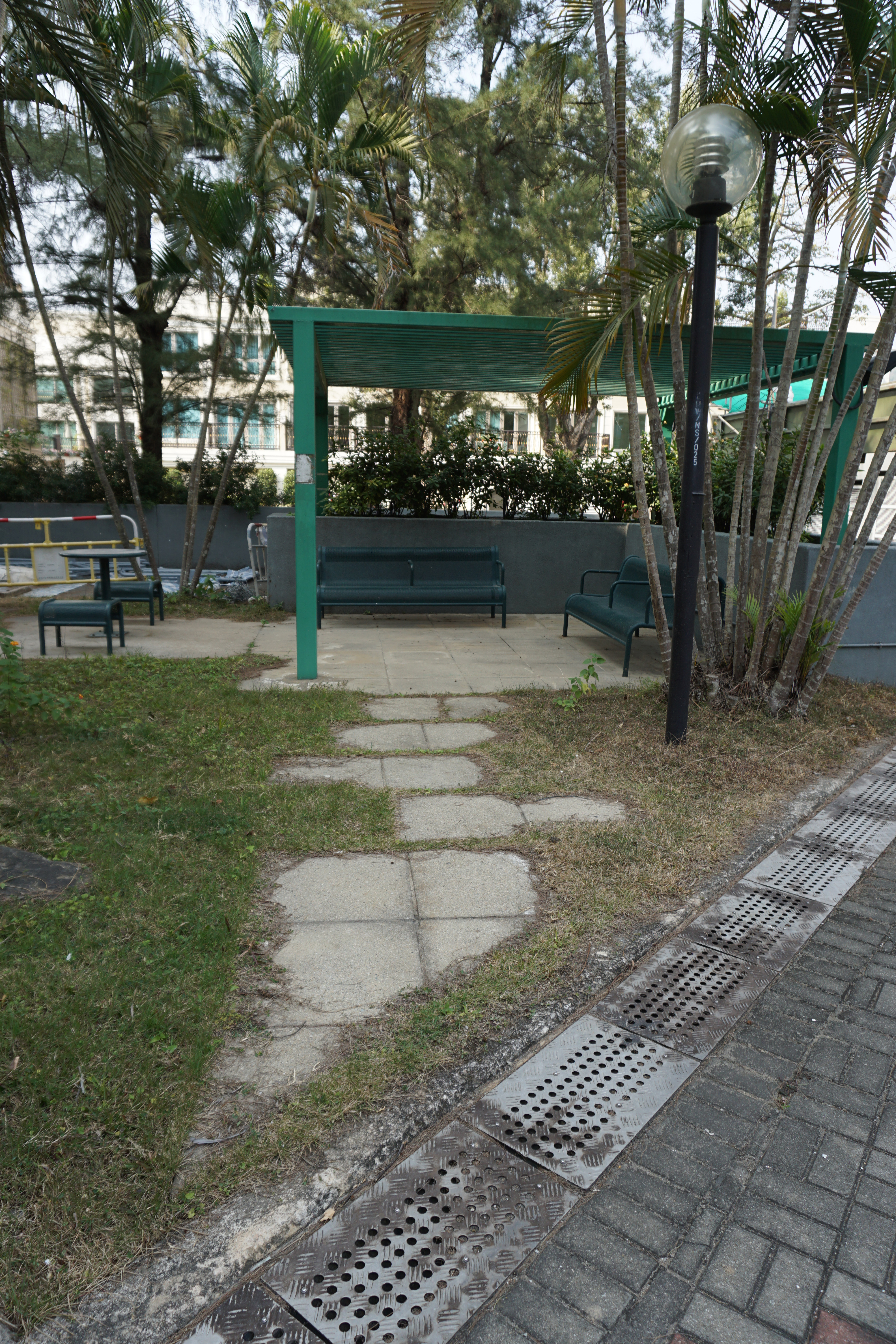 Ngan Wan Estate in Mui Wo, Hong Kong.